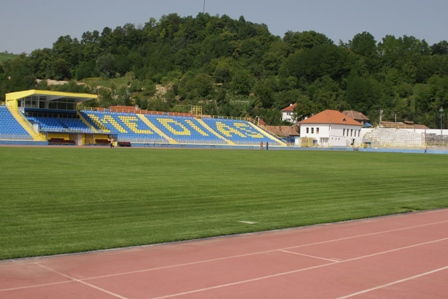 Gaz Metan Medias stadium